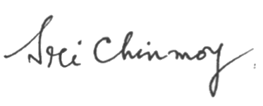 Signature from Sri Chinmoy transparent.